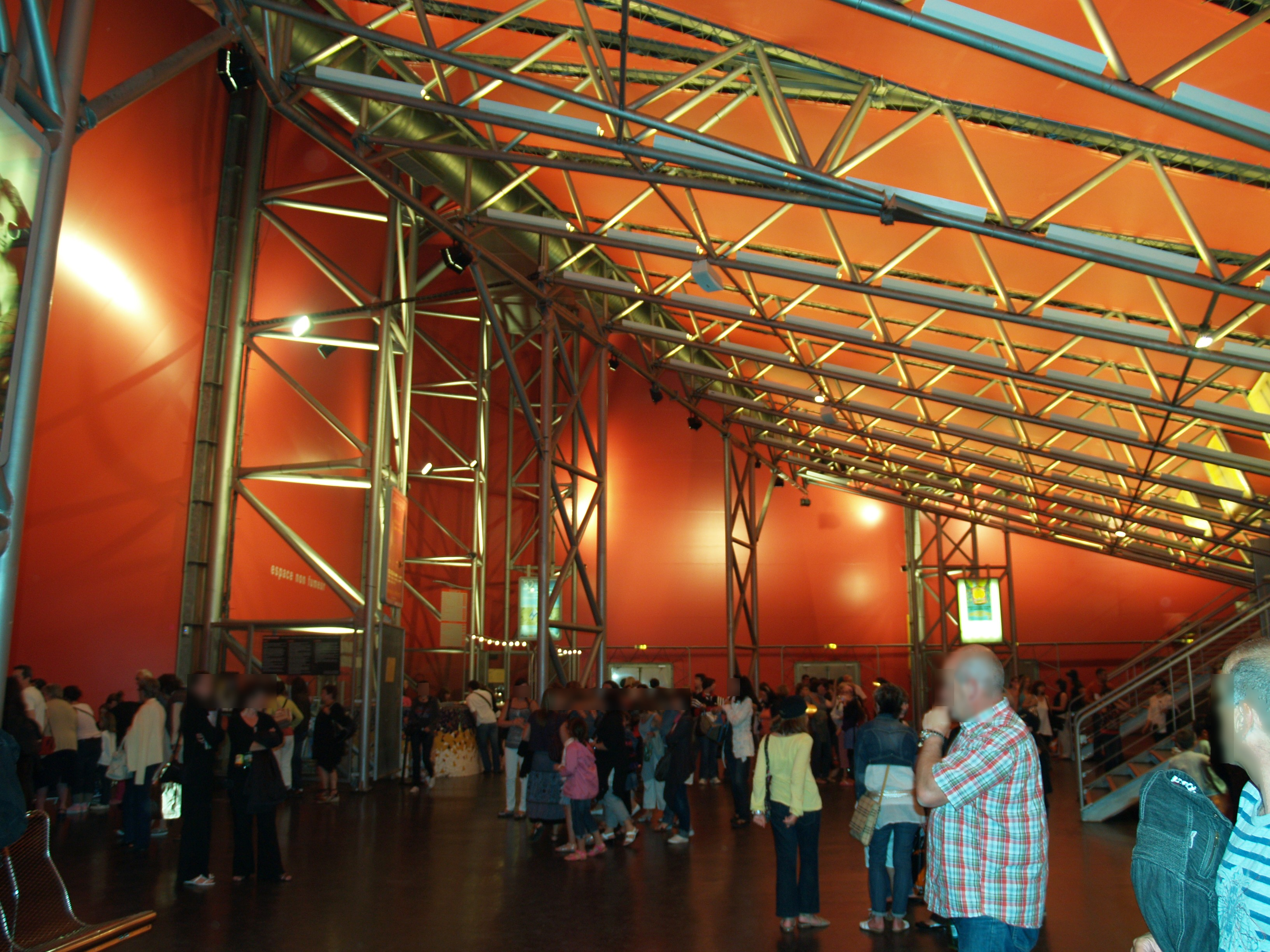 Entrance Hall of Zenith of Montpellier after the musical Cléopatre.